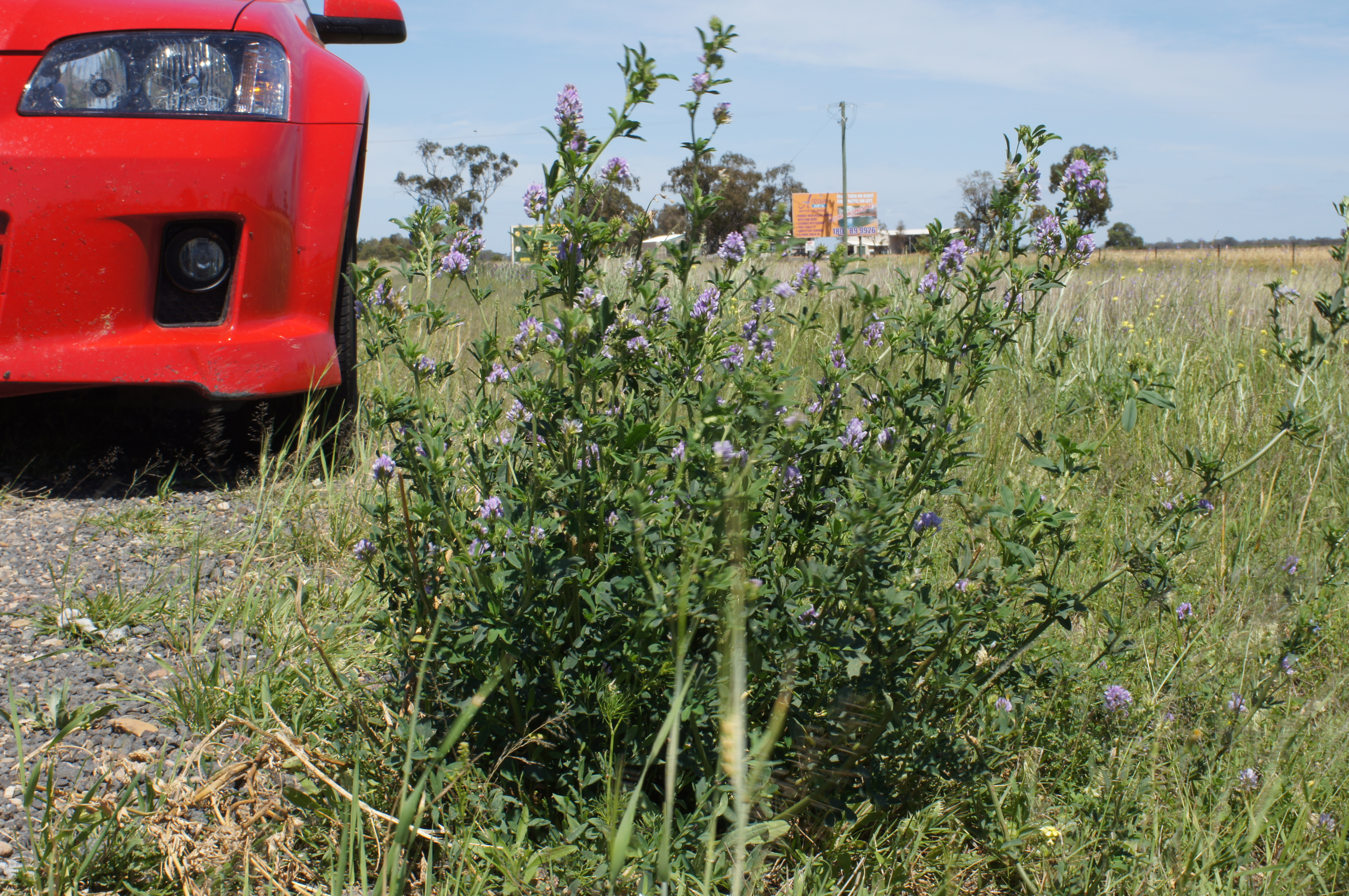 Introduced, yearlong-green, perennial, erect legume; to 1 m tall. Leaves have 3 leaflets, each to 30 mm long and with toothed margins near the tip; the stalk of central leaflet is longer than the two lateral ones. Flowerheads are racemes of 20-30, mostly purple, pea-like flowers. Pods are cylindrical and spineless, with 2-3 coils. Flowering is from spring to autumn. A native of the Mediterranean and Asia, it is sown on deep well-drained soils (e.g. alluvial flats) and is naturalised along roadsides. Does not like acid soils with a pHCa below 5 and is very sensitive to aluminium to depth. Deep-rooted, high quality, high production potential legume, it is suitable for hay, silage, grazing and cropping. Varieties vary in their winter dormancy and disease resistance. There are a number of leaf and crown diseases which can affect lucerne stands on the coast, so careful variety selection and stand management is essential. Poor basal cover of pure lucerne stands can lead to erosion. Weed competition can severely reduce lucerne establishment – plan well ahead. Causes bloat in cattle and photosensitisation in horses. Requires rotational grazing for best production and persistence. Cut or graze at 10 per cent flower or when crown shoots are 1-2 cm long on 50 per cent of plants. Do not graze below 5 cm. Back fencing aids persistence and production when used for grazing.